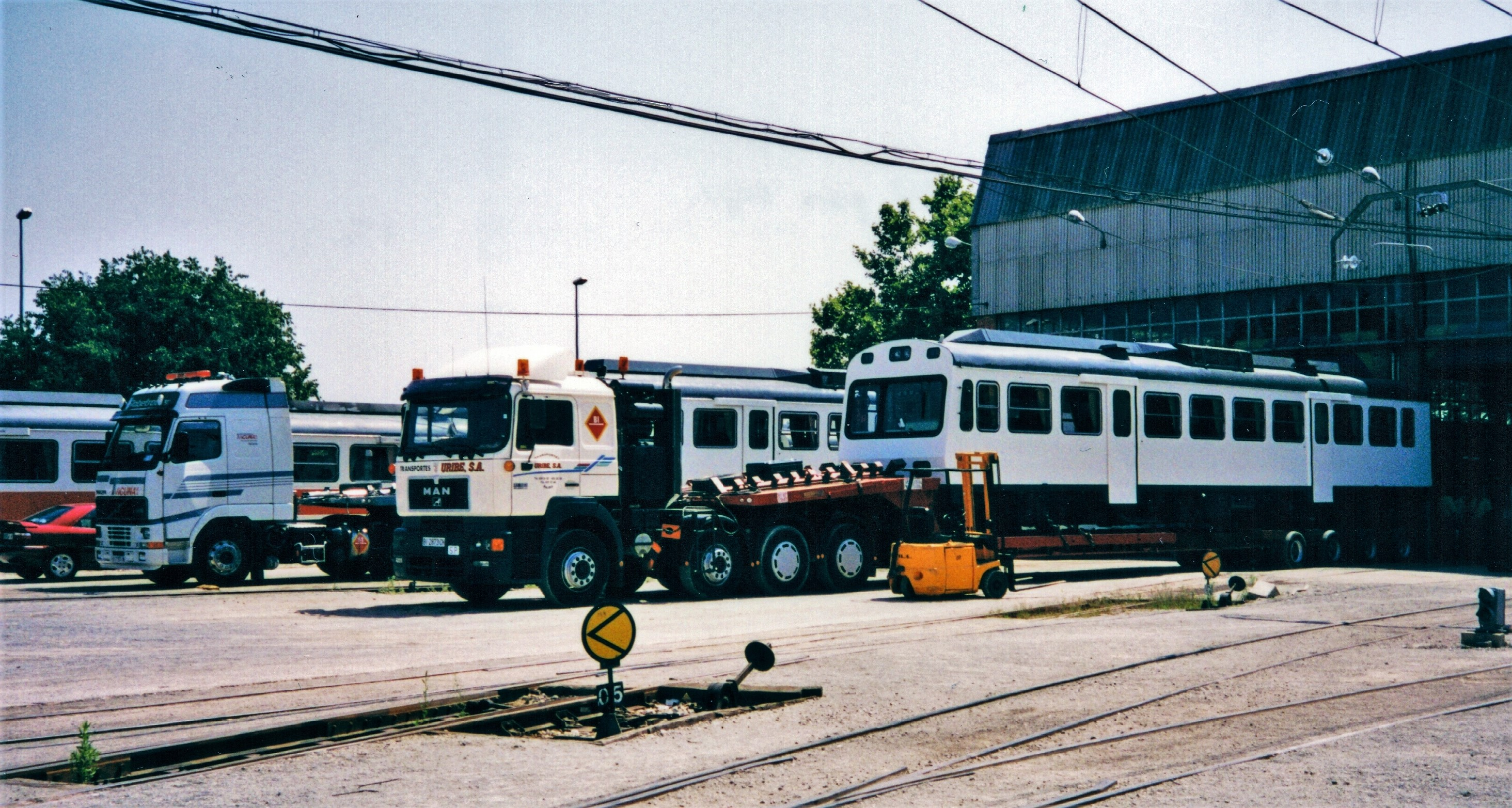 Two of the three cars of one of the Class 3000 DMU of FGC sold to FGV (3012-3004-3013), loaded onto the trucks that transported them to Alicante.